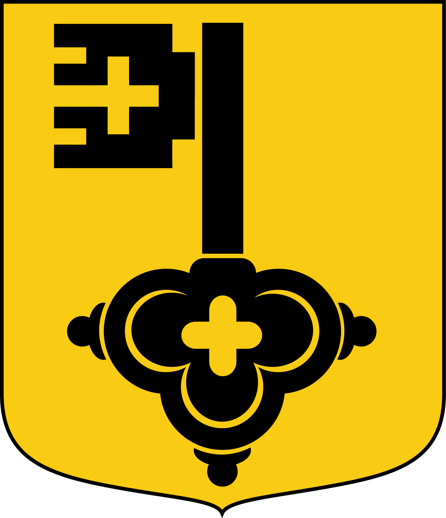 Coat of arms of the municipality of Leksand, Sweden. Painted by Vladimir A. Sagerlund when he was the heraldic artist at the National Archives of Sweden (Riksarkivet). This representation of a coat of arms is potentially different from the one used by the armiger (municipality or organisation) in question. = ⇑“Sable, a lionrampant or” This coat of arms was drawn based on its blazon which – being a written description – is free from copyright. Any illustration conforming with the blazon of the arms is considered to be heraldically correct. Thus several different artistic interpretations of the same coat of arms can exist. The design officially used by the armiger is likely protected by copyright, in which case it cannot be used here.Individual representations of a coat of arms, drawn from a blazon, may have a copyright belonging to the artist, but are not necessarily derivative works. Further information: Commons:Coats of arms and Template:Coa blazon